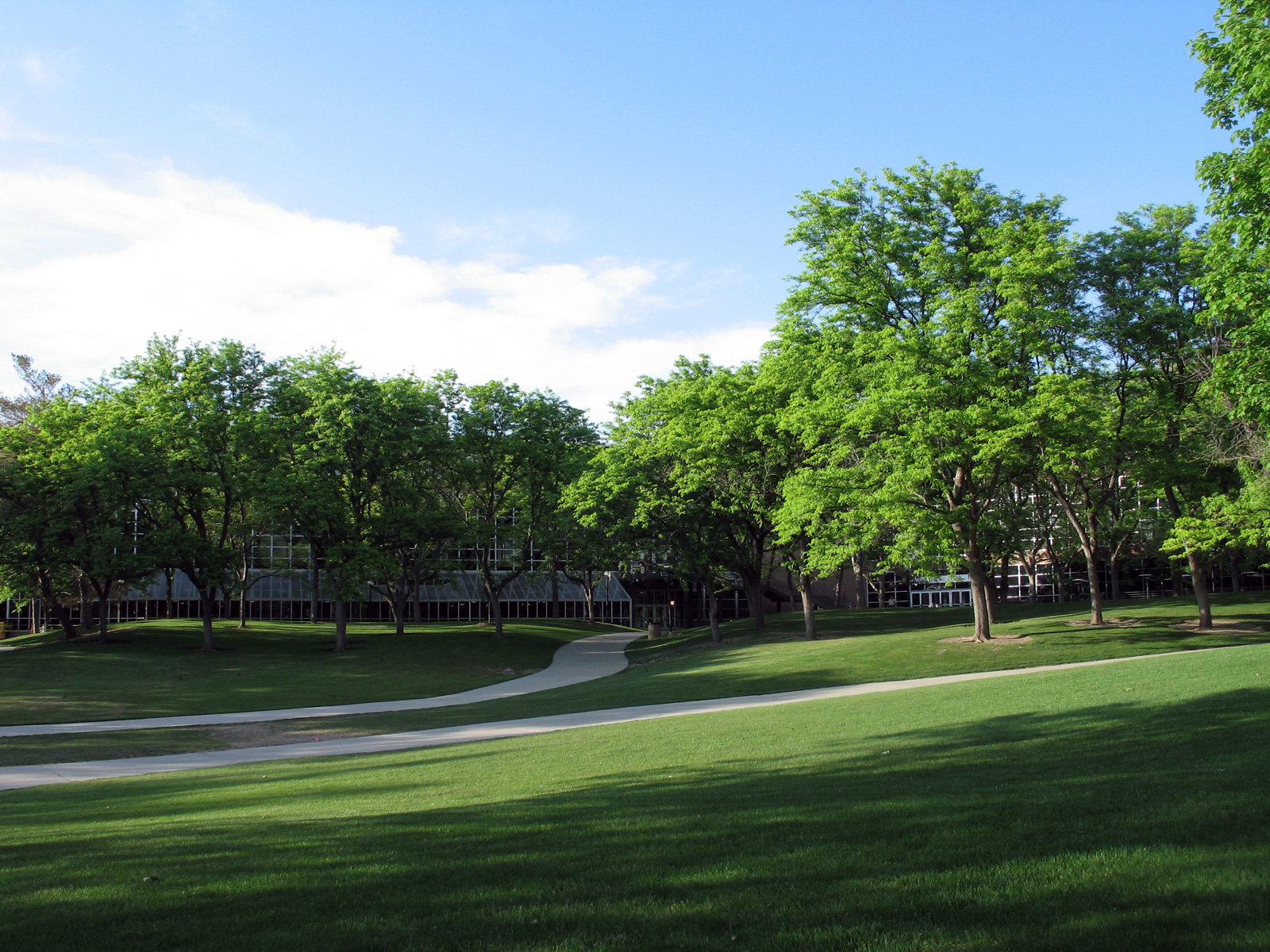 The Union courtyard and A. Ray Olpin Union Building at the University of Utah campus in Salt Lake City, Utah